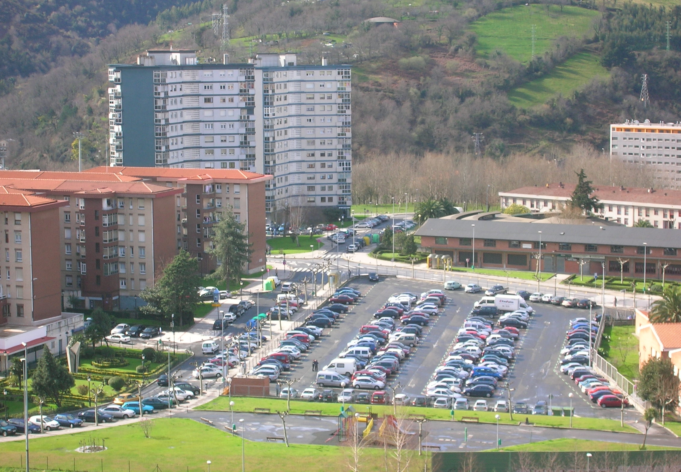 Houses and parking lot in La Paz, Cruces - Gurutzeta, Barakaldo.